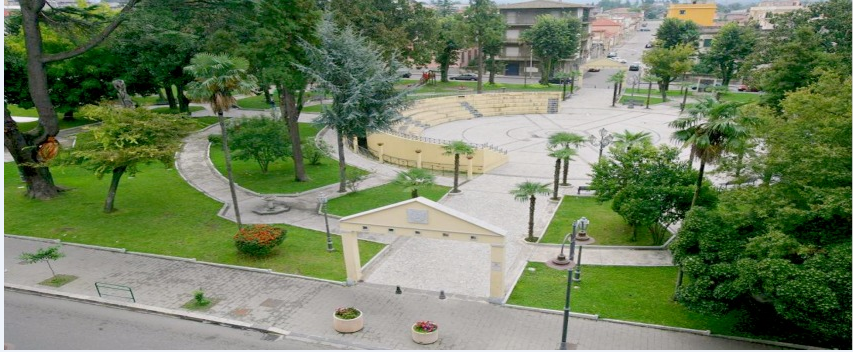 Villa comunale